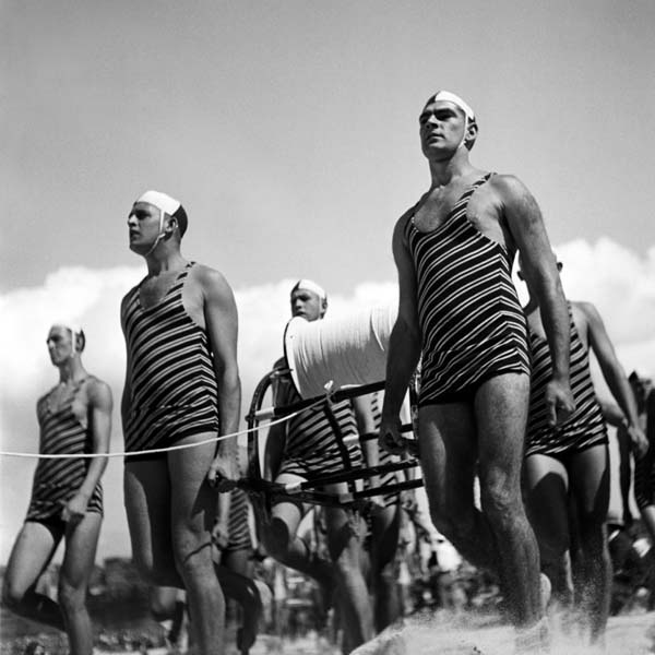 Photograph of Freshwater Surf Life Saving Club reel team marching past, Bondi Beach, taken by George Caddy